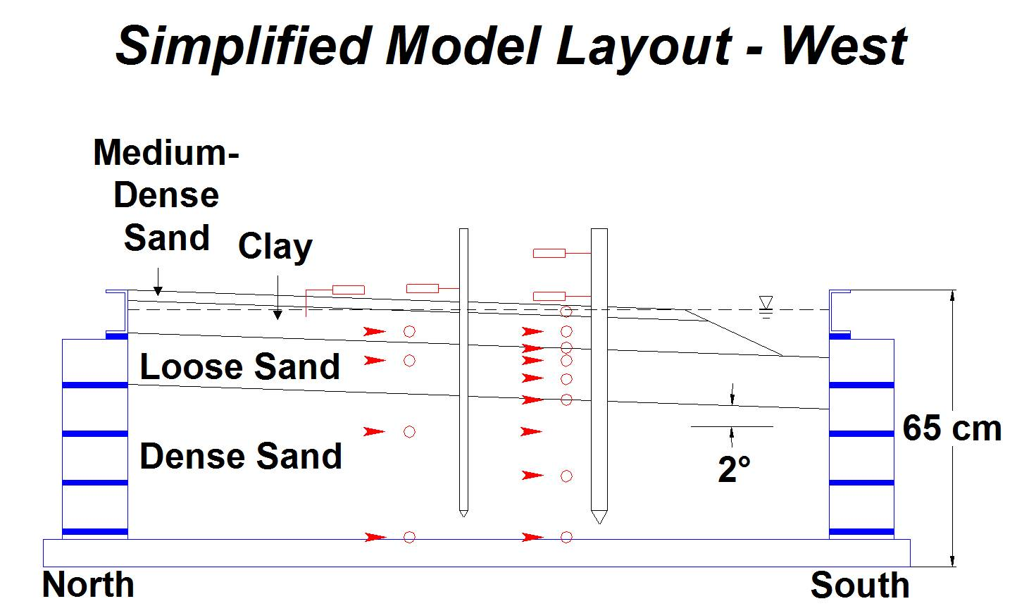 Diagram of a Centrifuge Model, with dimensions scaled to prototype units.